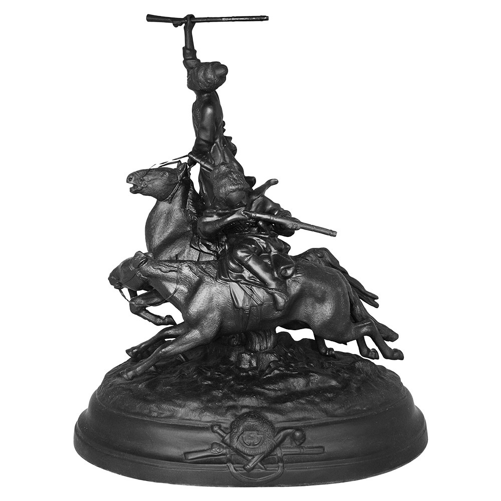 Lezghins